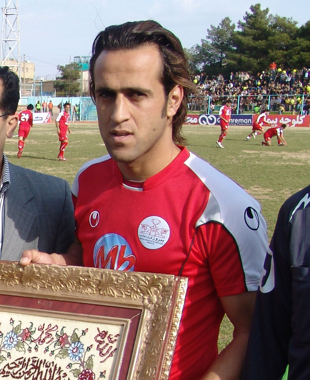 Ali Karimi in Semnan